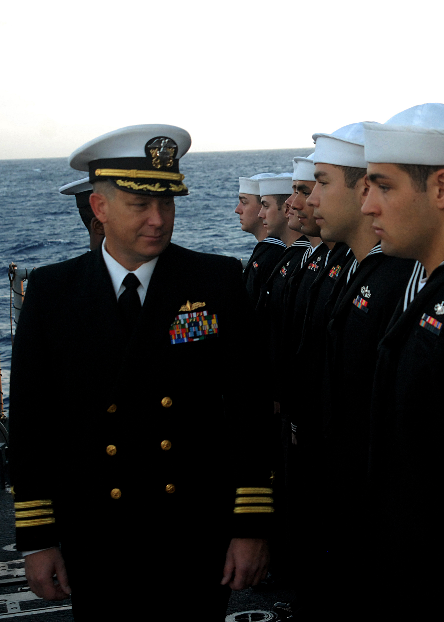 PACIFIC OCEAN (Feb. 18, 2008) Cmdr. Richard Martel, executive officer of the guided-missile cruiser USS Lake Erie (CG 70), inspects the dress blue uniforms of Sailors during a uniform inspection on the flight deck prior to a burial-at-sea ceremony. The ceremony, which honors fallen prior military service members, will commit the remains of 12 individuals to sea. Lake Erie is operating off the coast of Hawaii in preparation for ship's Board of Inspection and Survey. U.S. Navy photo by Mass Communication Specialist 2nd Class Michael Hight (Released)